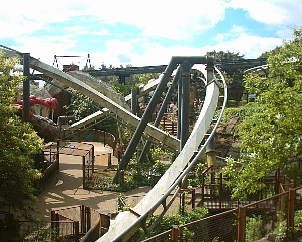 The Nemesis rollercoaster, Alton Towers.